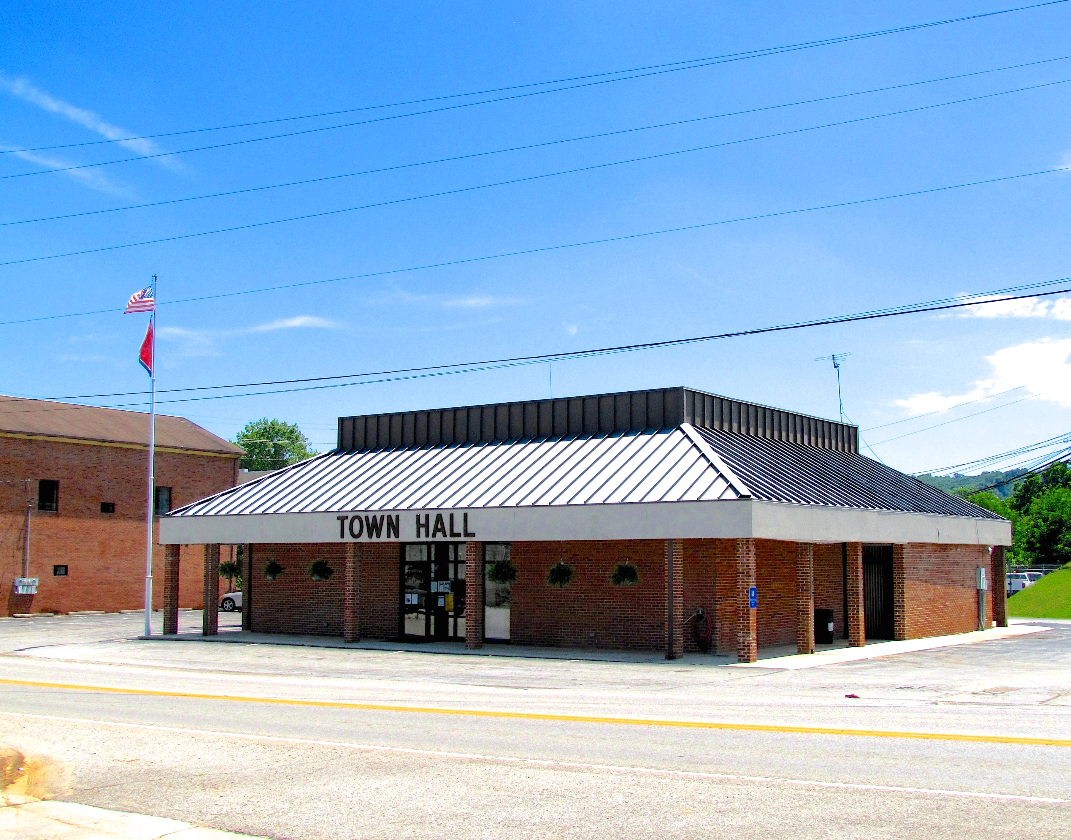 Town Hall in Byrdstown, Tennessee, United States.